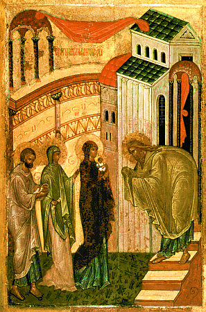 Late fifteenth-century Russian Icon depicting the Events of Jesus' presentation in the Temple of Jerusalem and the prophecy of Simeon, for Candlemas